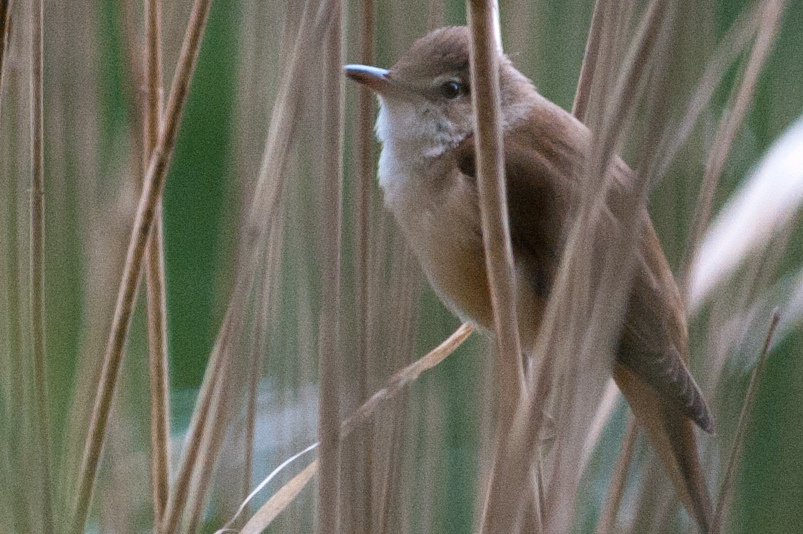 Acrocephalus arundinaceus (Great Reed Wardler) sitting and singing in the reed at Beetzer See, Brandenburg.